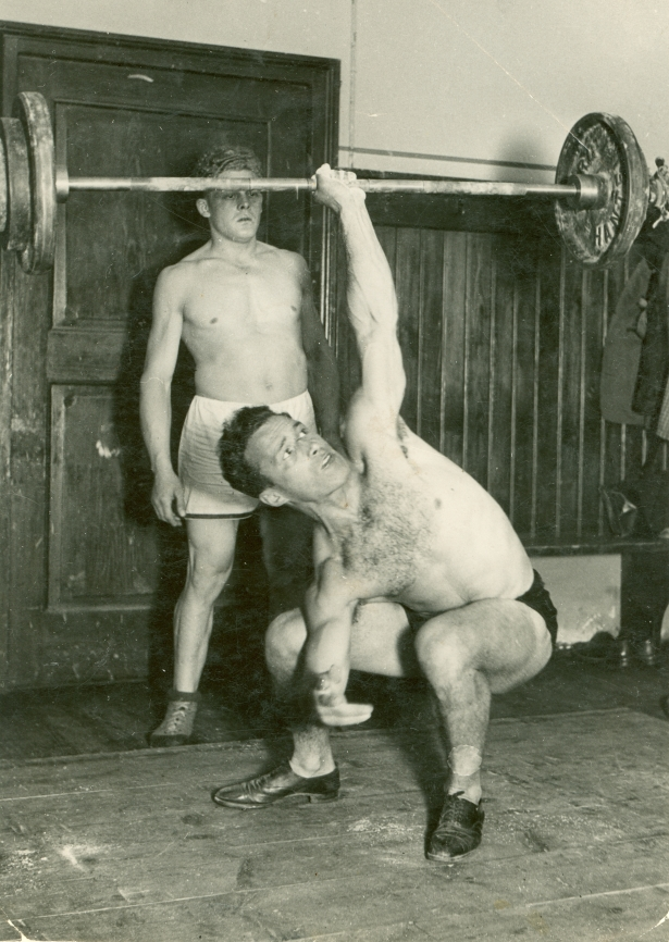 Anton Gietl one handed weightlifting